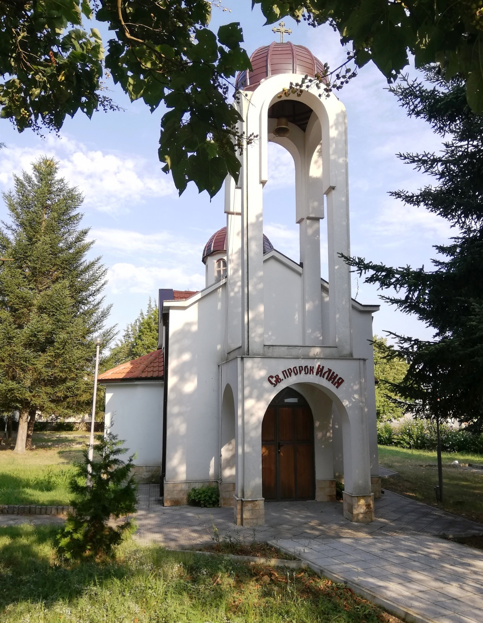 Chapel in Tutraknatsi, Varna Province